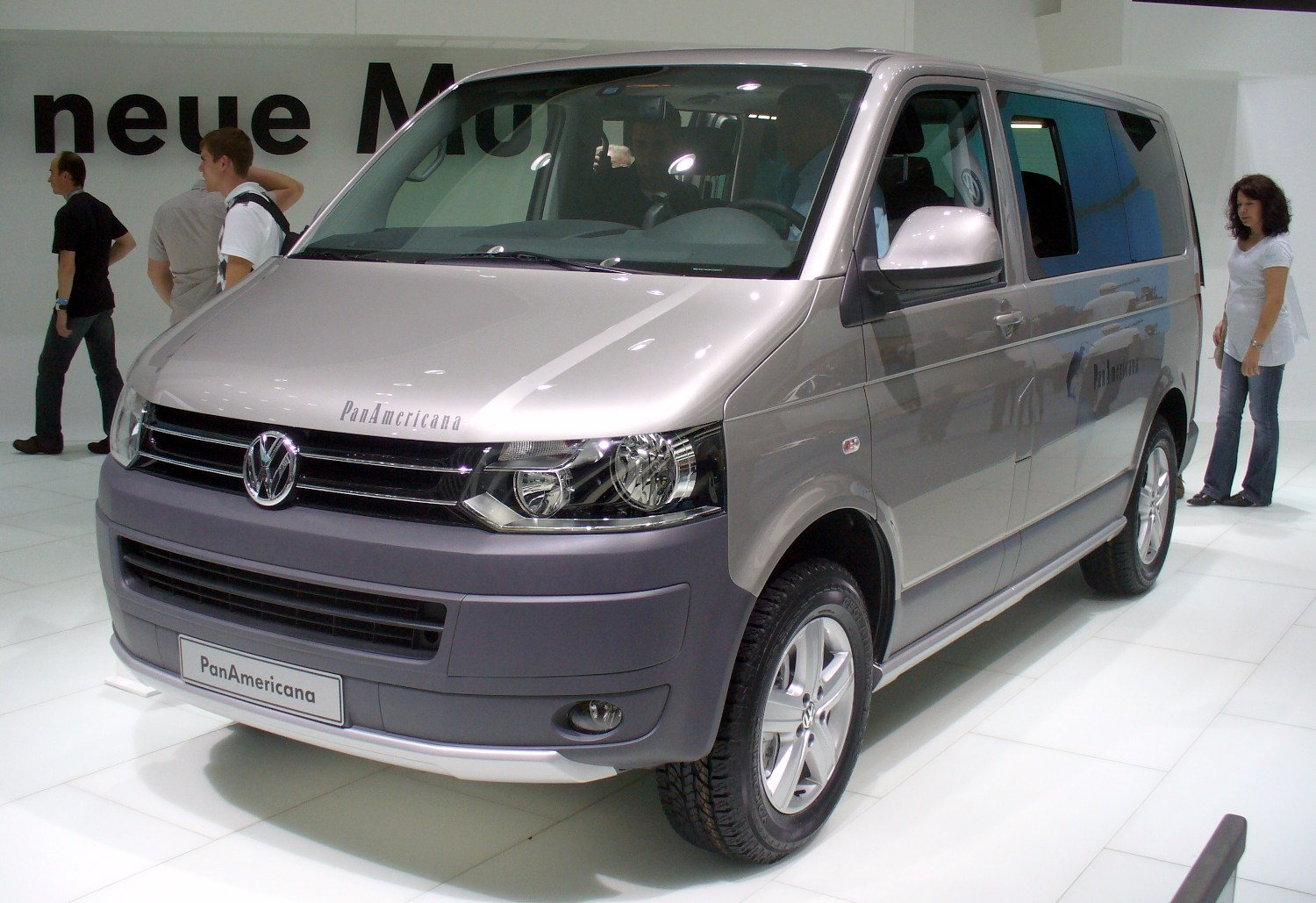 VW T5 Facelift